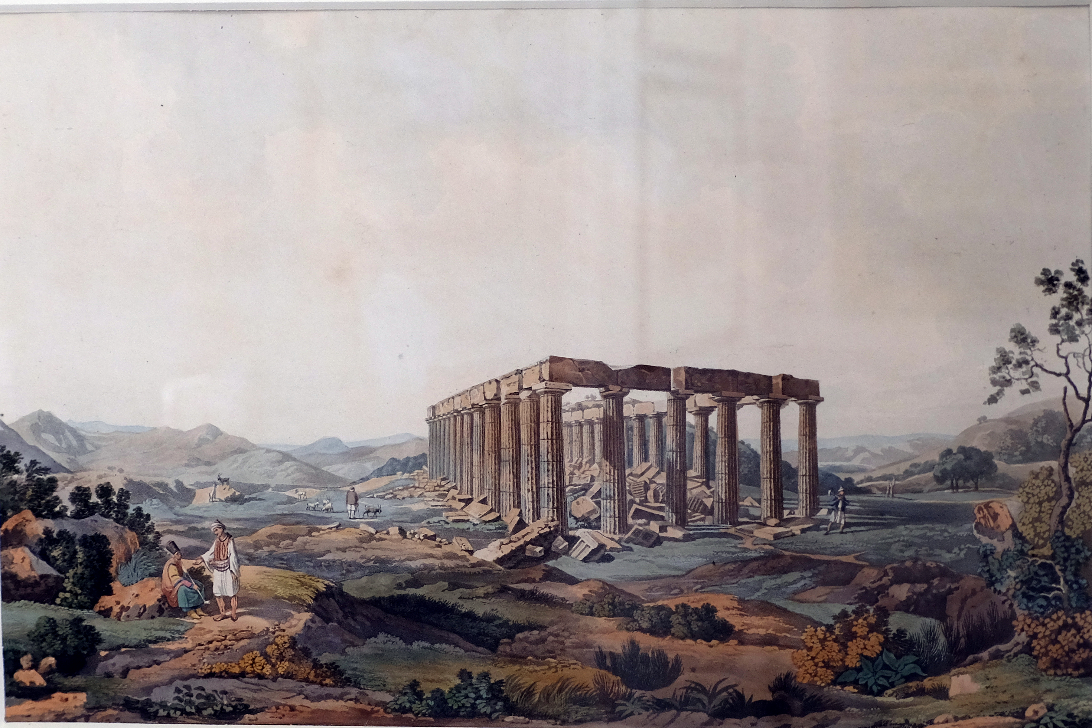 From Views of Greece, London 1821